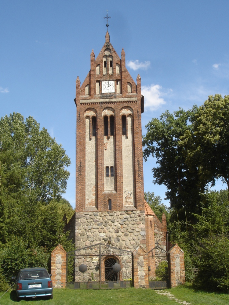 Church in Pęzino, Poland, West Pomeranian Voivodeship, Stargard Country, commune Stargard